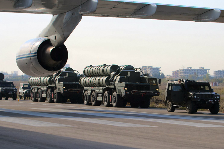 26.11.2015 Выгрузка зенитных ракетных комплексов С-400 (авиабаза «Хмеймим», Сирийская Арабская Республика)